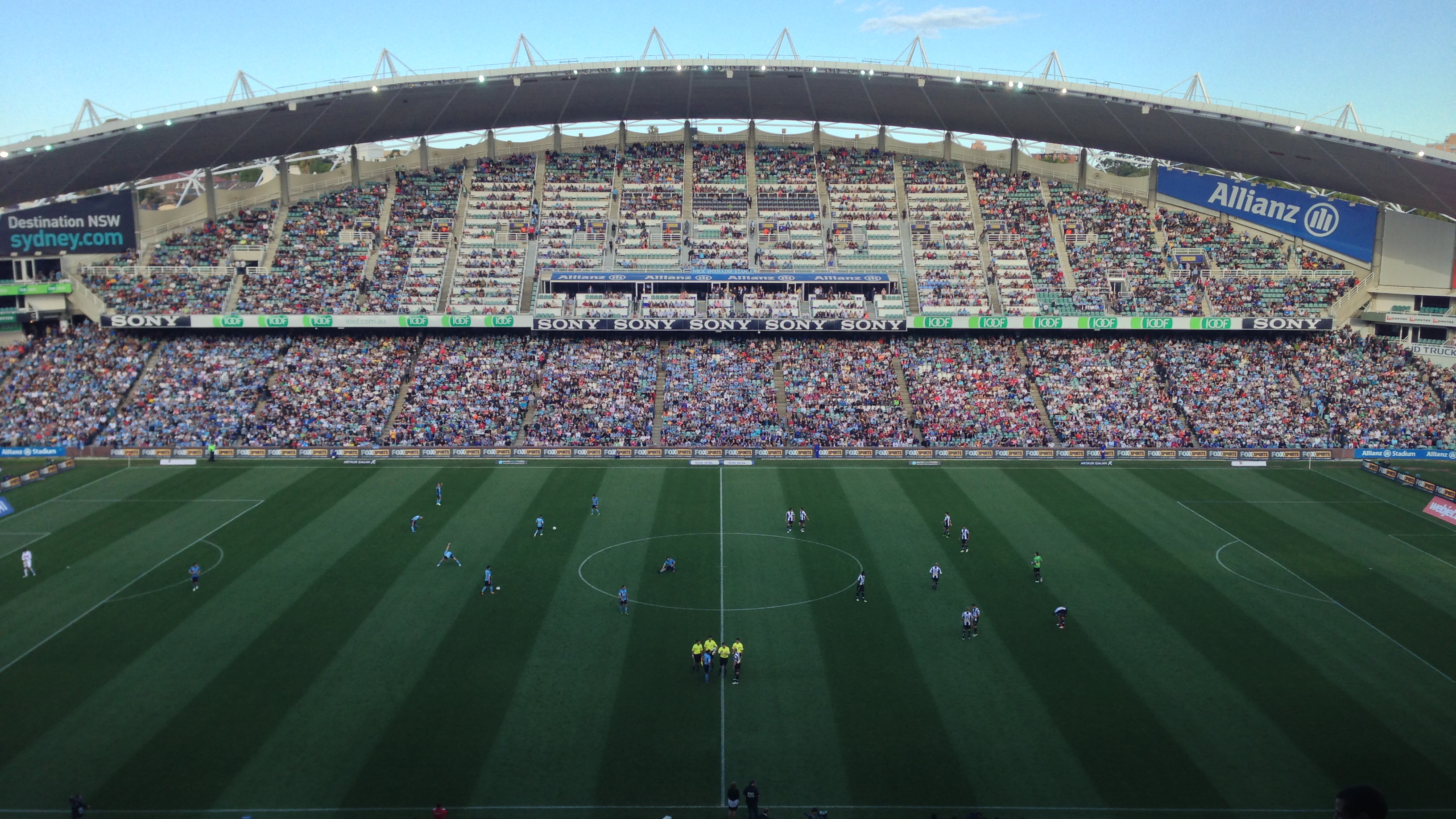 Allianz Stadium on 13 October 2012 before the start of Sydney FC's match against Newcastle Jets.